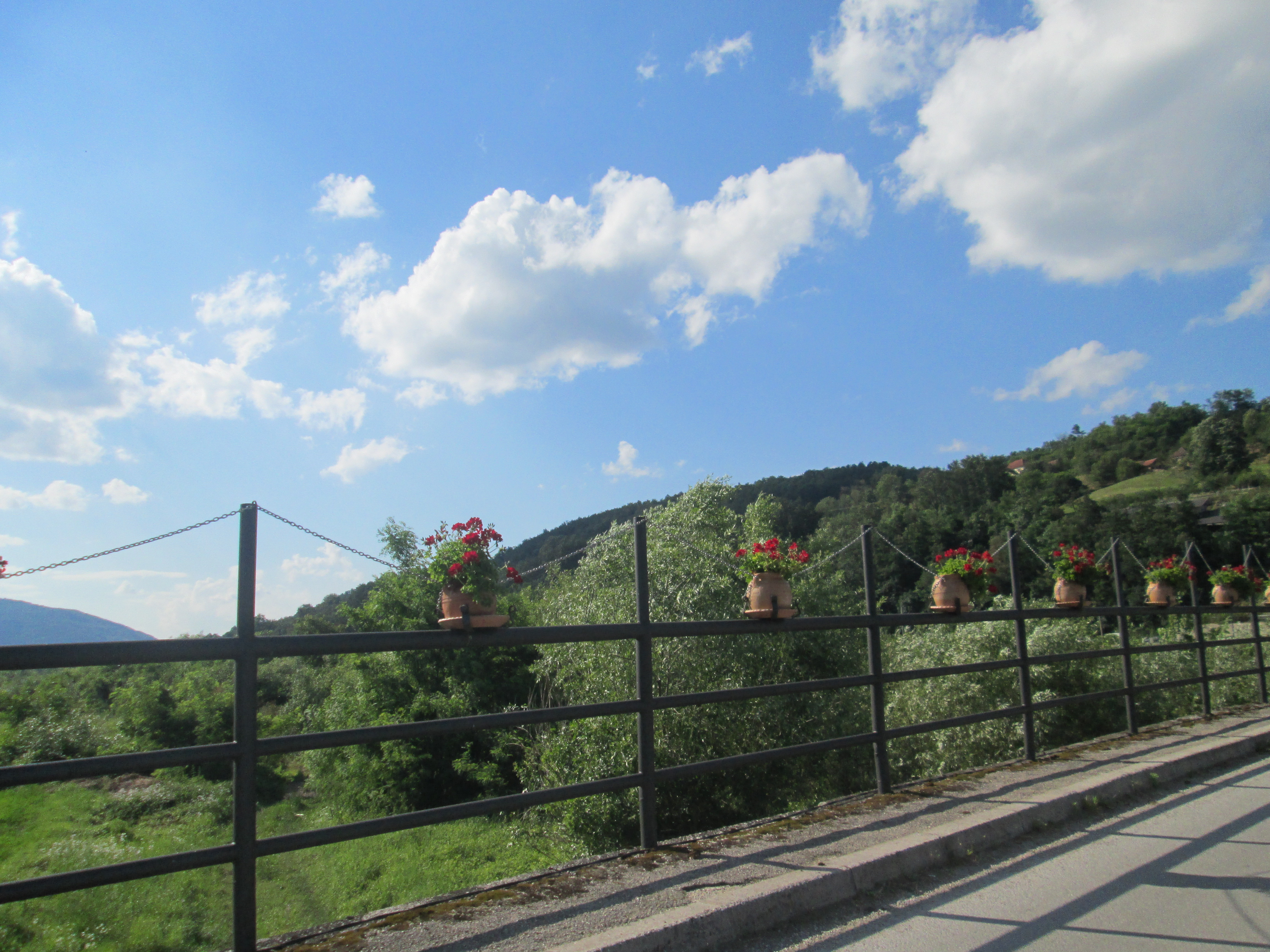 View over the bridge, Zlakusa Српски (ћирилица): Поглед преко моста, Злакуса